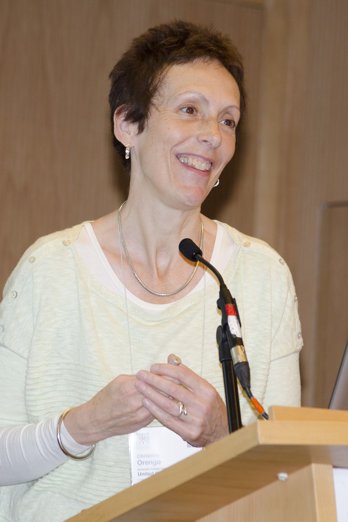 Christine Orengo at ISMB / ECCB 2015